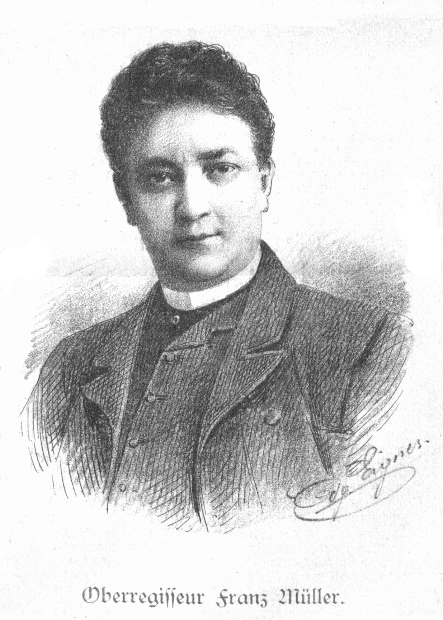 Portrait of Franz Müller (1850-??), Austrian actor and director (regisseur).